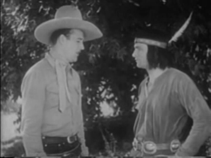 John Wayne and Yakima Canutt in The Star Packer, a 1934 film by Robert N. Bradbury